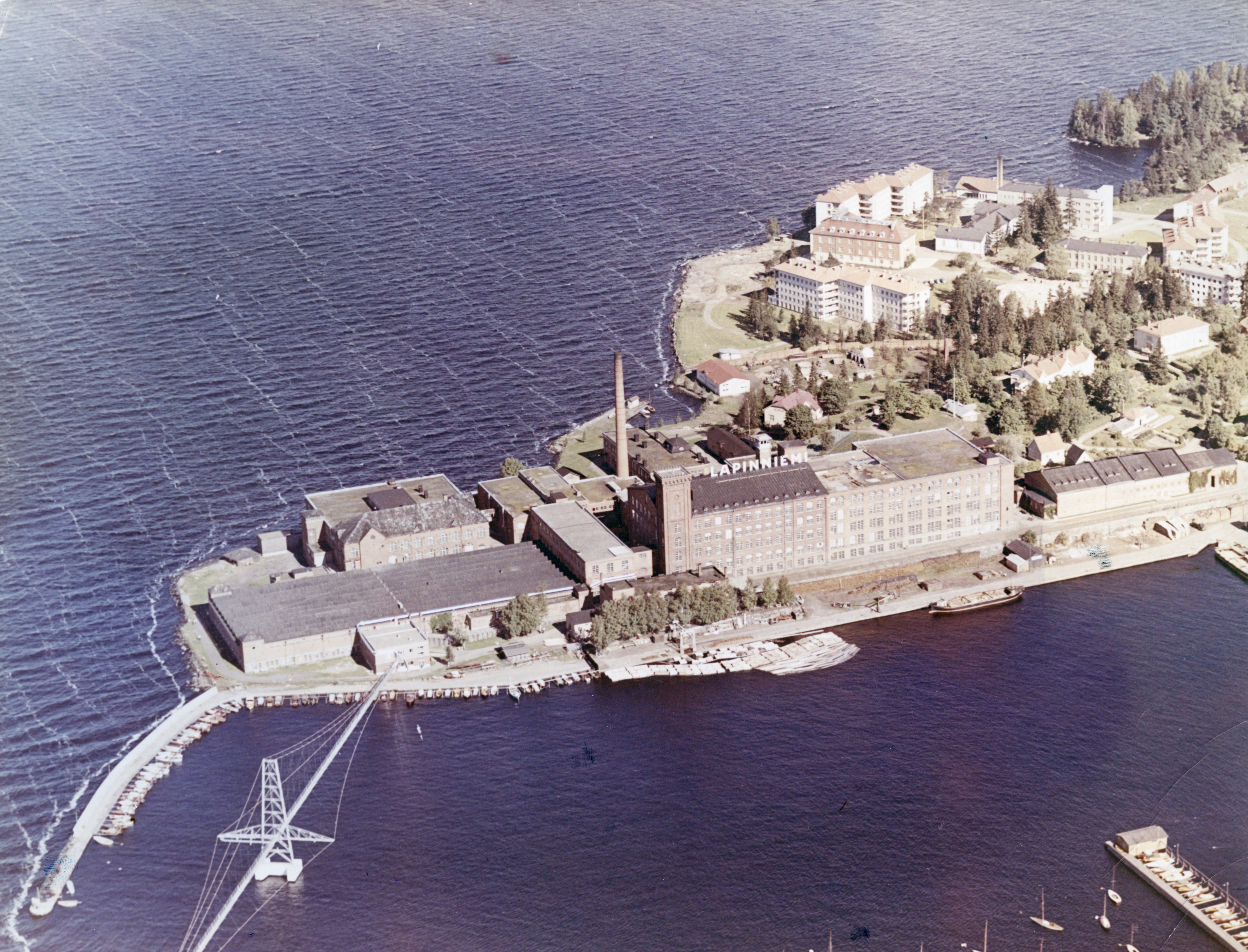 Lapinniemi Cotton mill. Photo by Oy Tele-Film Ab, Vapriikki Photo Archives.